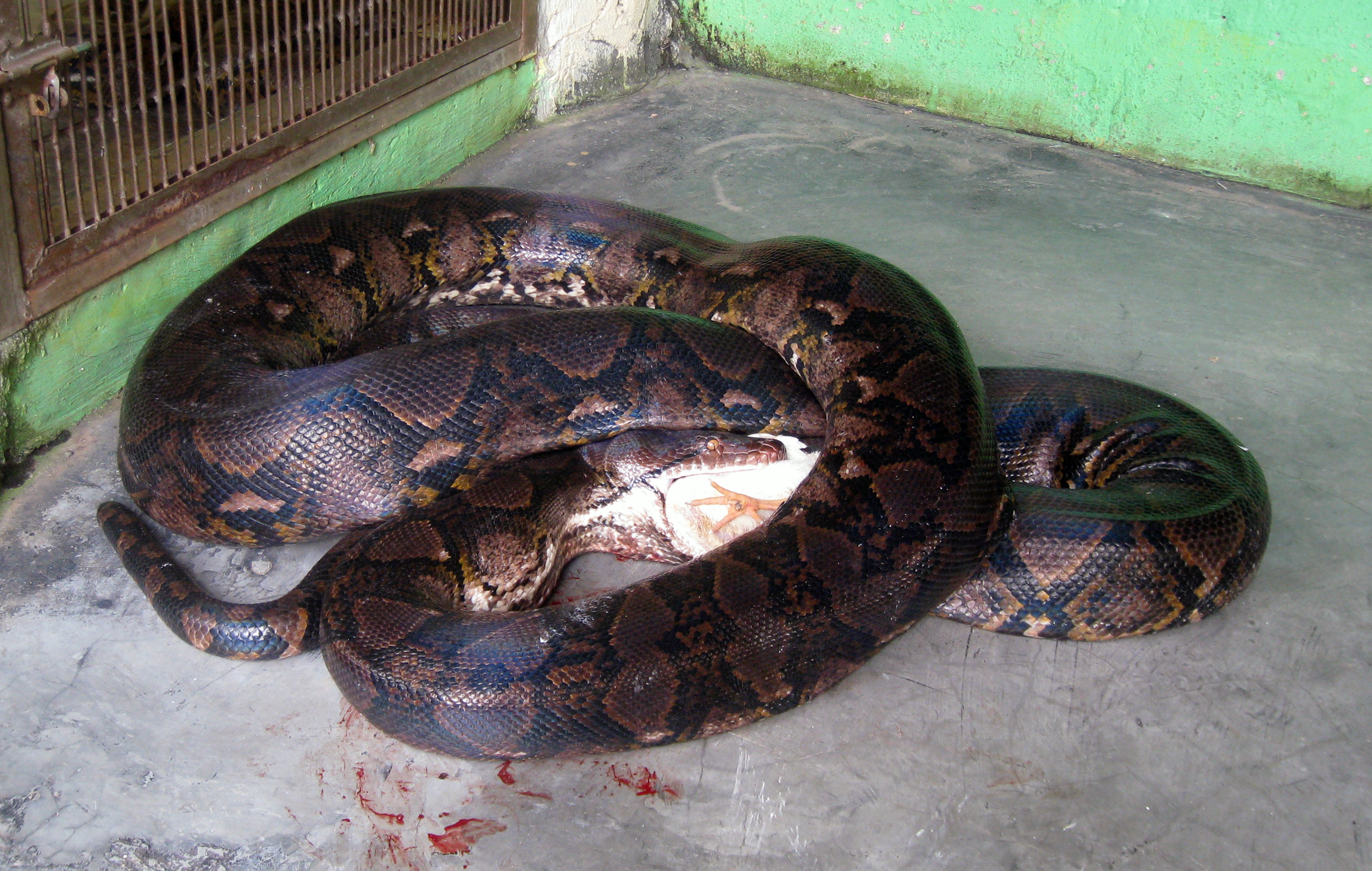 A large Phyton reticulatus feeding on 5 chickens in Taman Mini Indonesia Indah Reptile Park, Jakarta, Indonesia.